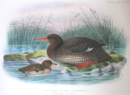 Auckland Islands Merganser.